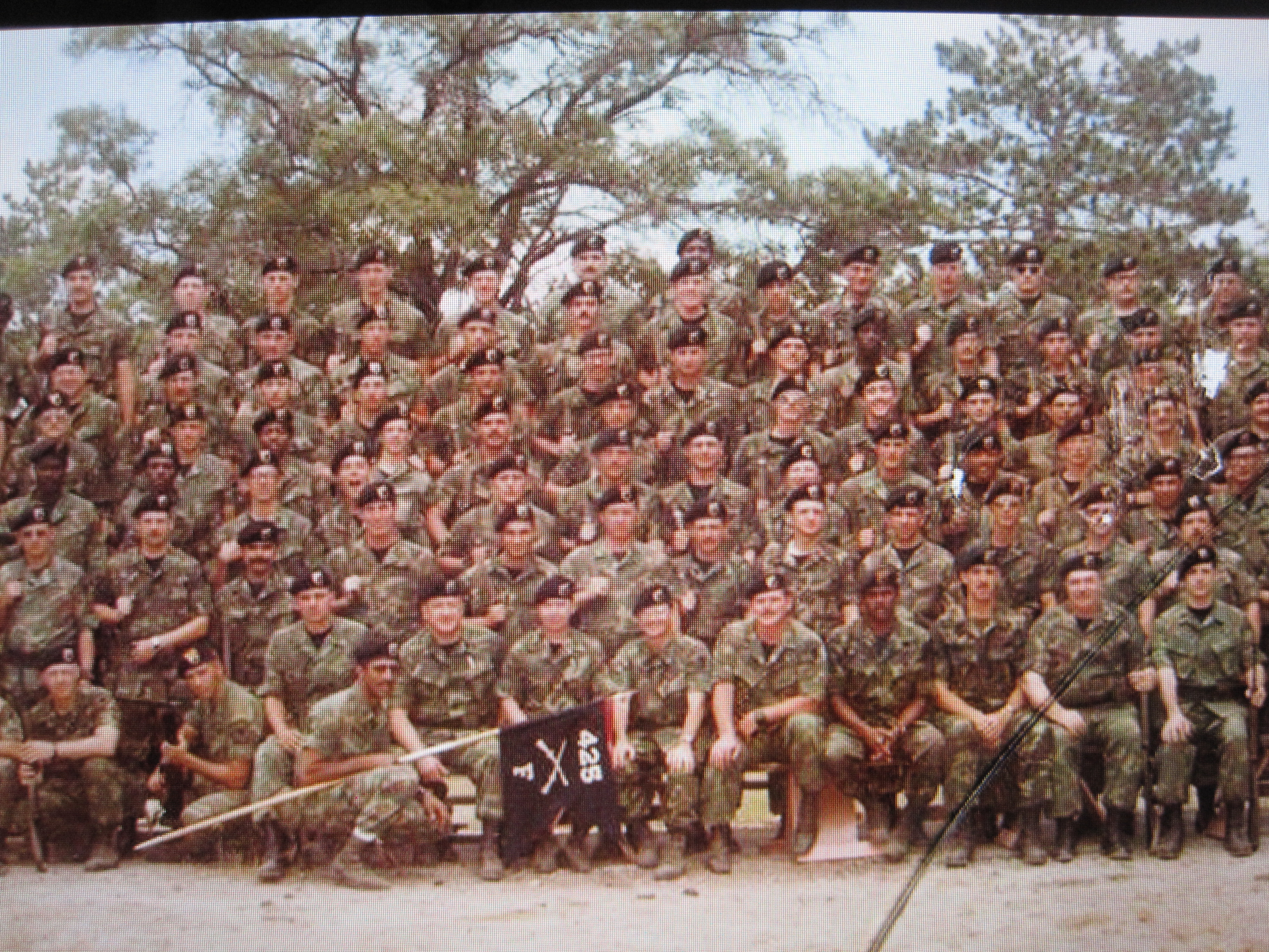 Group photo of Company F, 425th Infantry